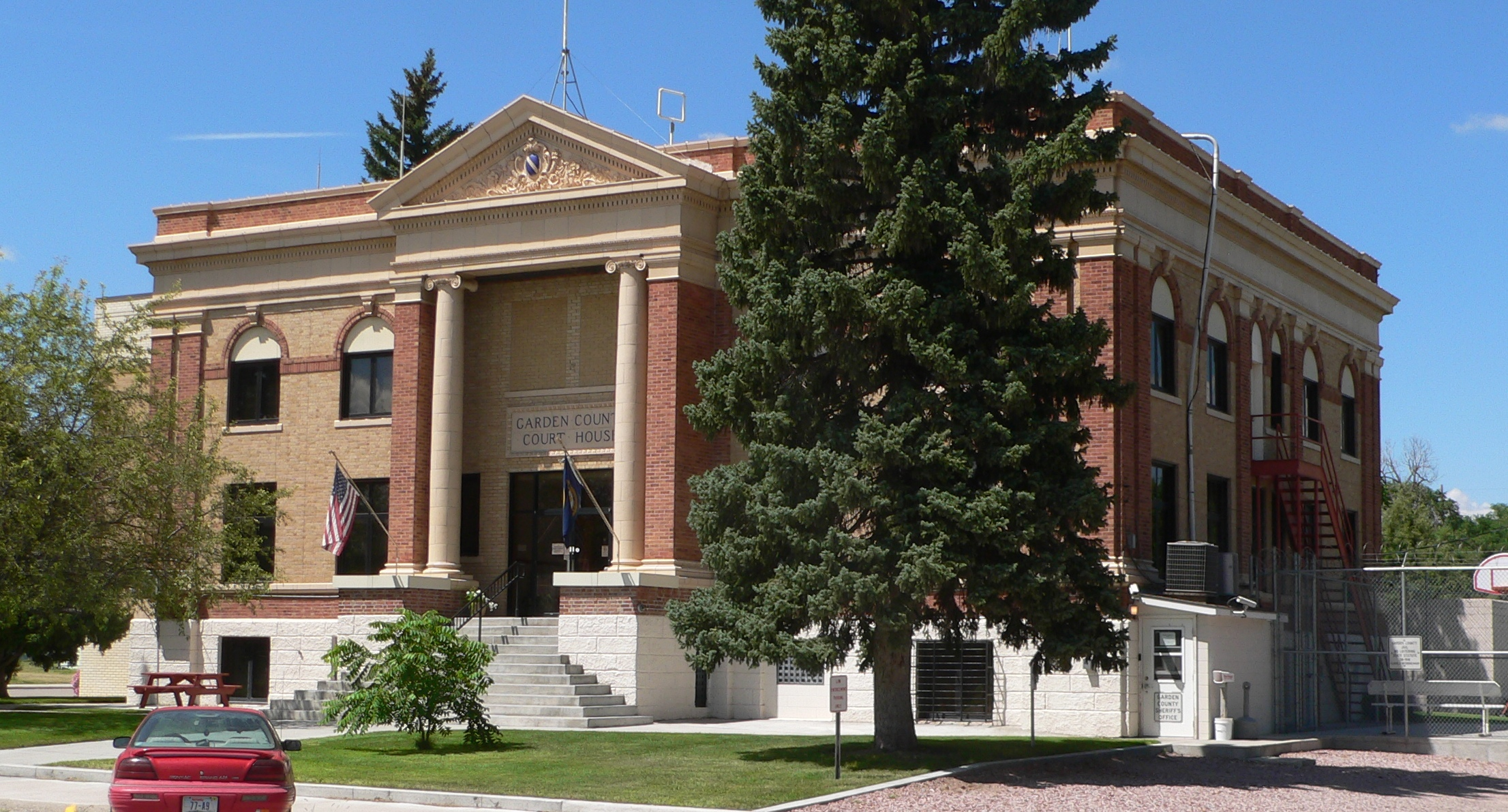 Garden County Courthouse in Oshkosh, Nebraska; seen from the southeast. The Classical Revival building was constructed in 1922. It is listed in the National Register of Historic Places.